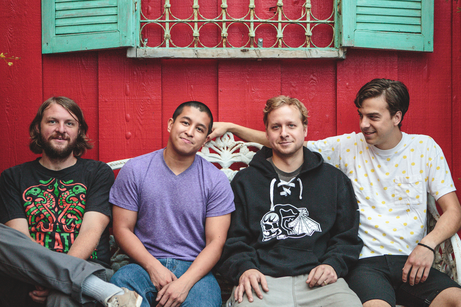 Picture taken by Rick Avena in Solana Beach, CA on 8.8.13.